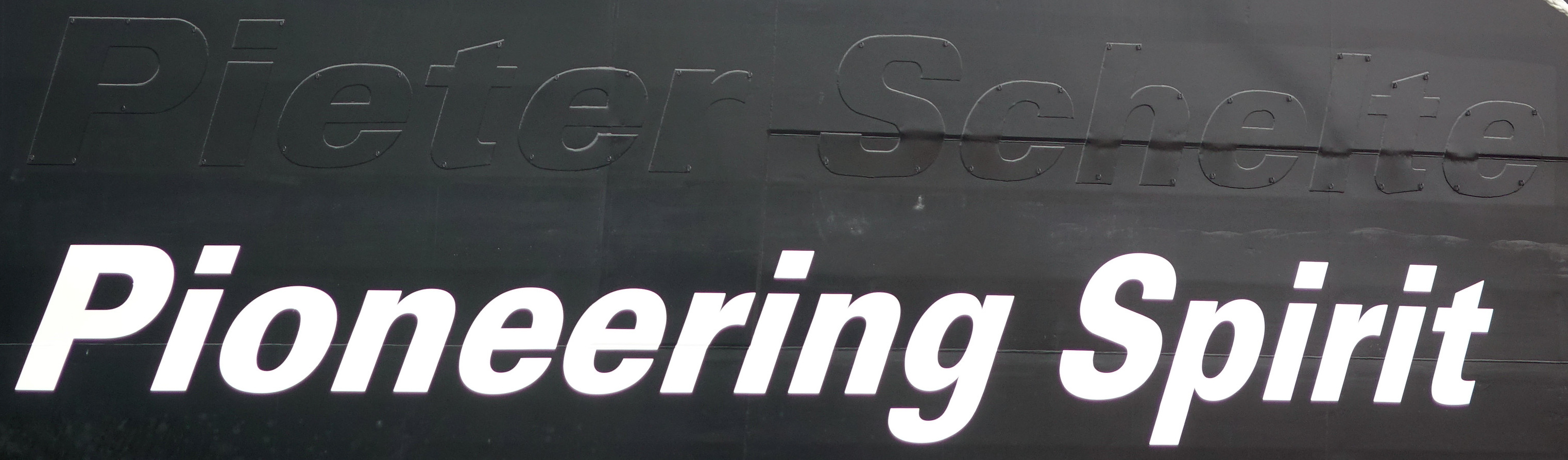 Crane ship Pioneering Spirit, Alexiahaven 14-3-2015.